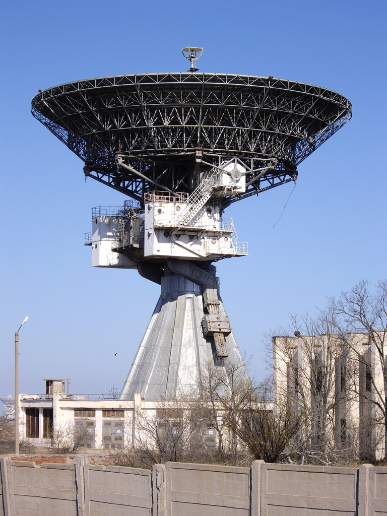 radiotelescope P-400